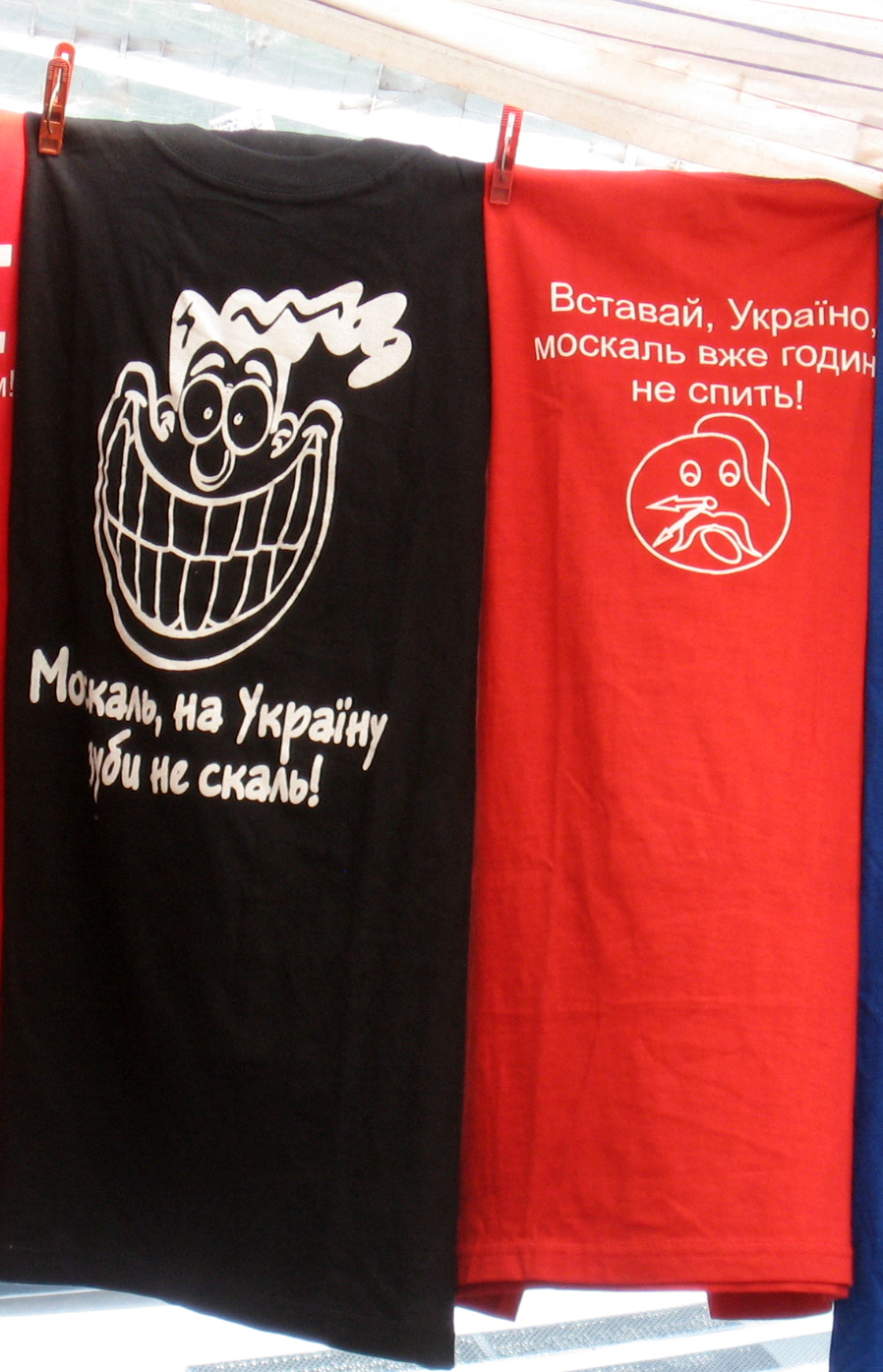 T-shirts with Ukrainian humorous slogans